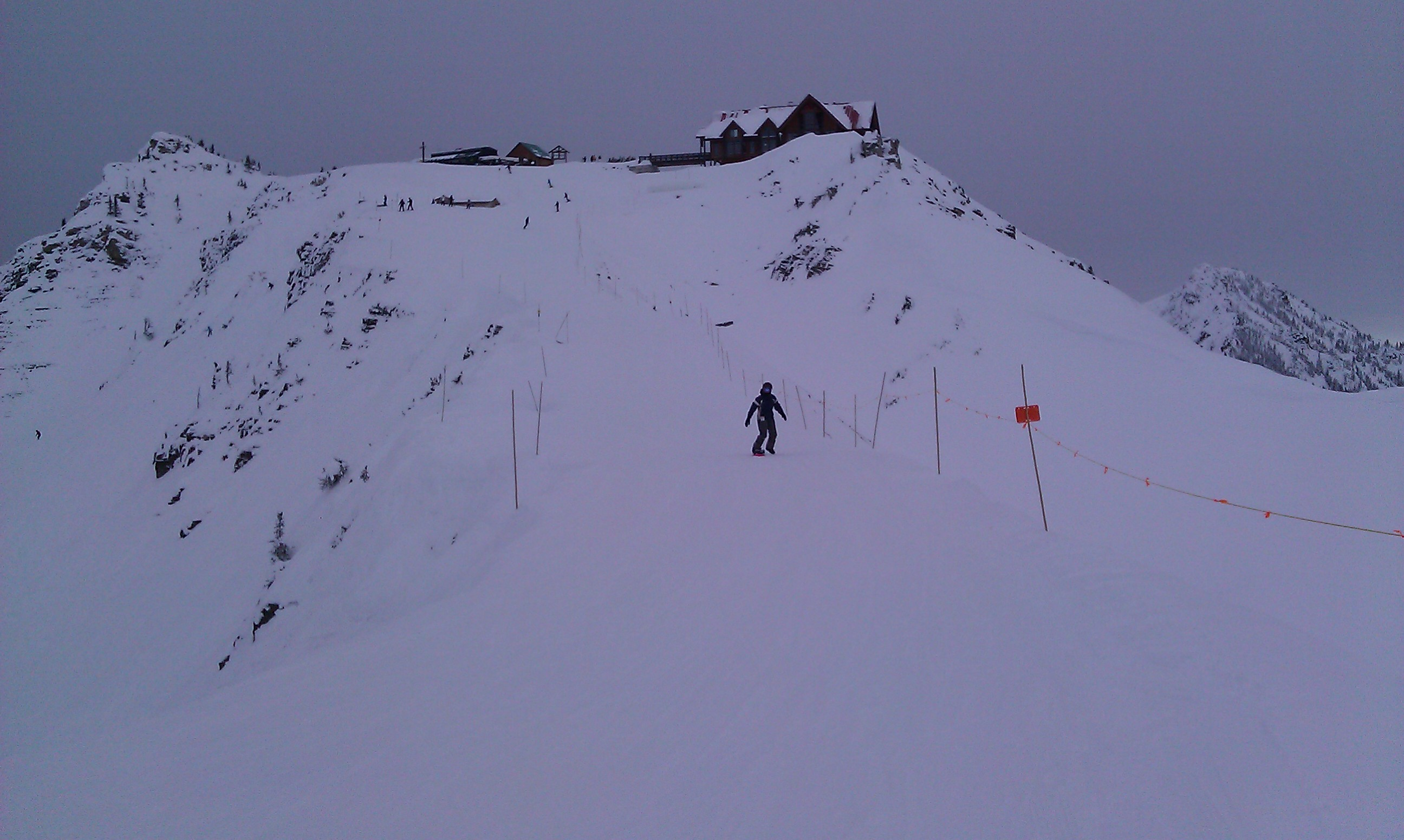 Taken from the top section of "It's a Ten" run at Kicking Horse Mountain Resort in Golden, British Columbia, Canada. Looking generally south, on the horizon the top of the Golden Eagle Express gondola is seen on the left and the Eagle's Eye restaurant is seen on the right.